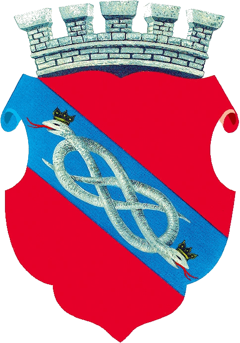 Coat of arms of the city Schrems - Lower Austria, Austria